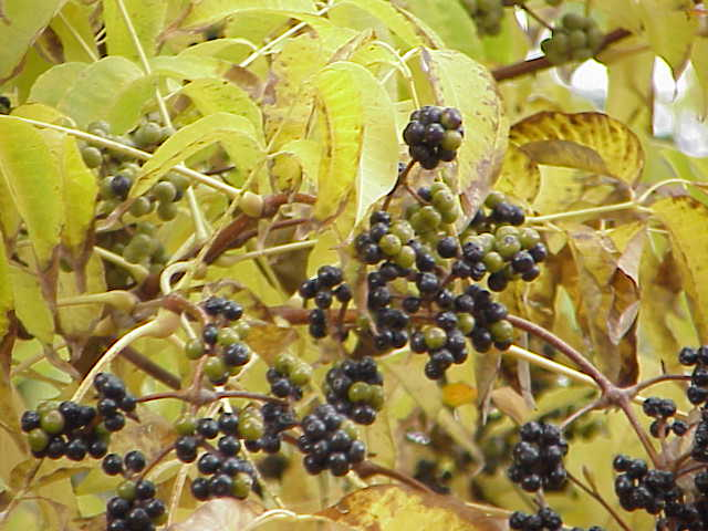 Species: Phellodendron amurense Family: Rutaceae Image No. 1